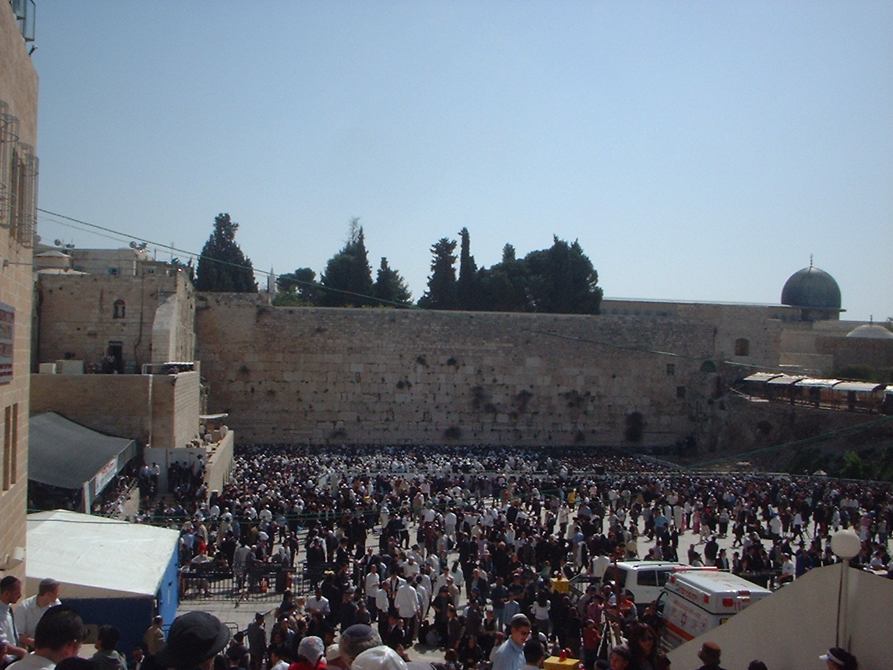 birkhat cohanim at the Western Wall during Passover 2004.